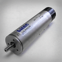 Cylindrical rotary electric actuator.